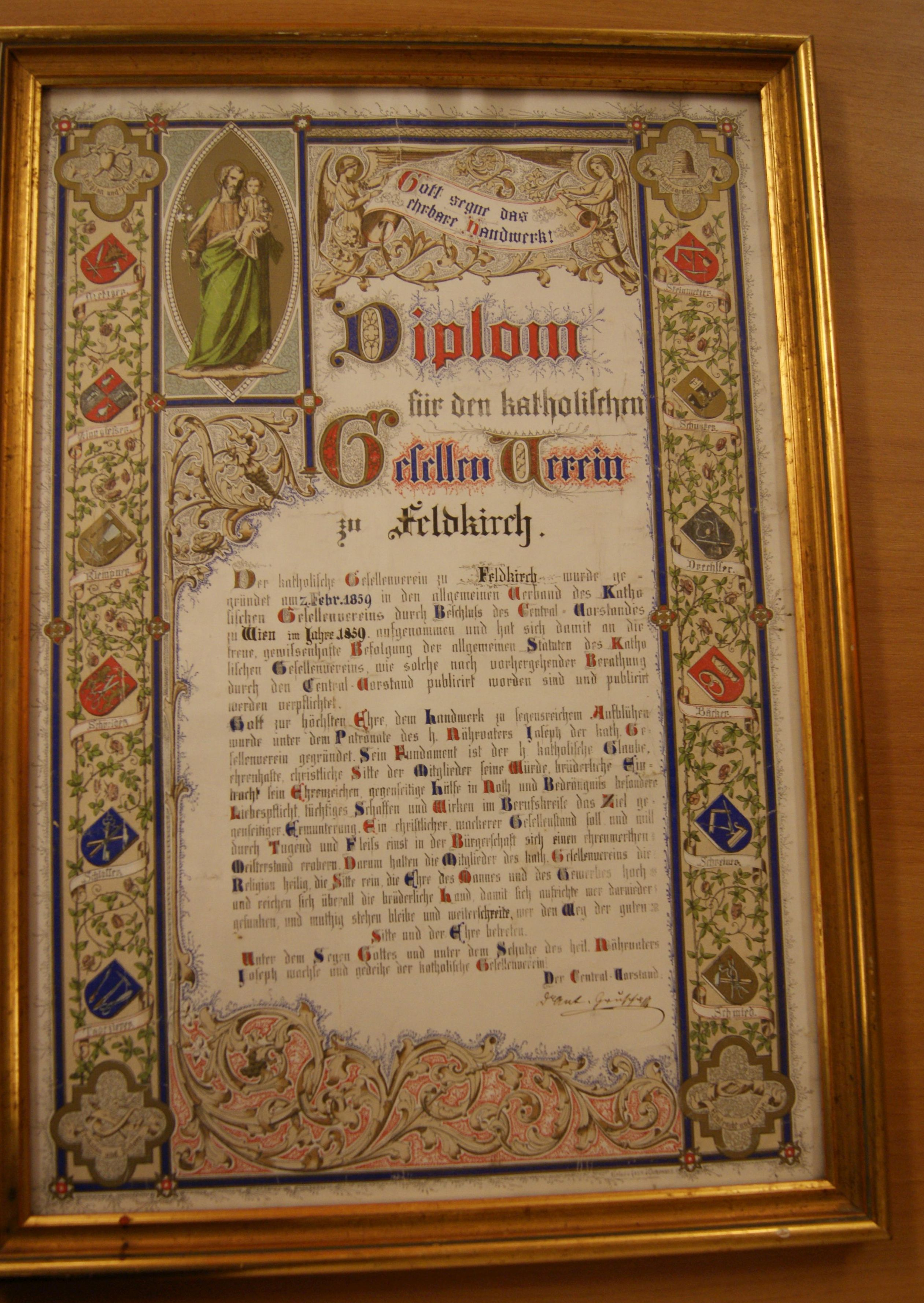 Diploma of the Central Board in Vienna on the admission of the Catholic journeymen's association to Feldkirch (now: Kolpingfamilie Feldkirch) into the association of the central catholic journeymen's association.